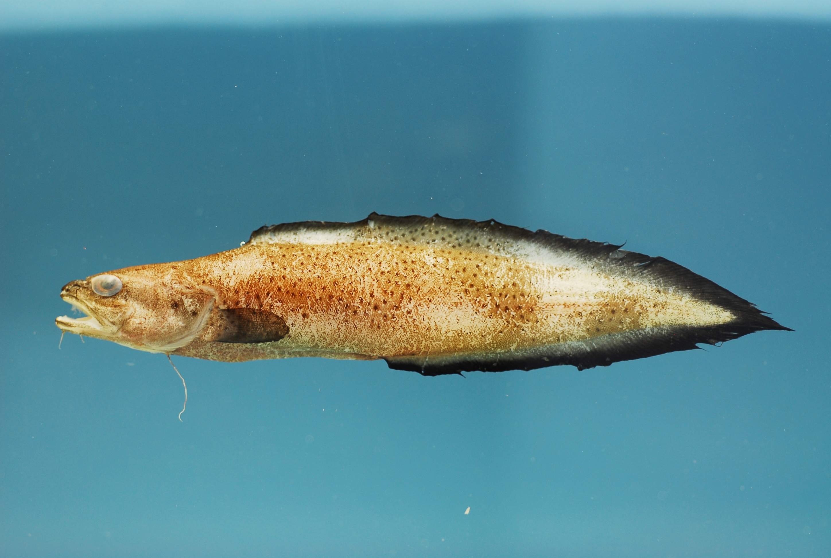 Bearded brotula ( Brotula barbata ). Gulf of Mexico.